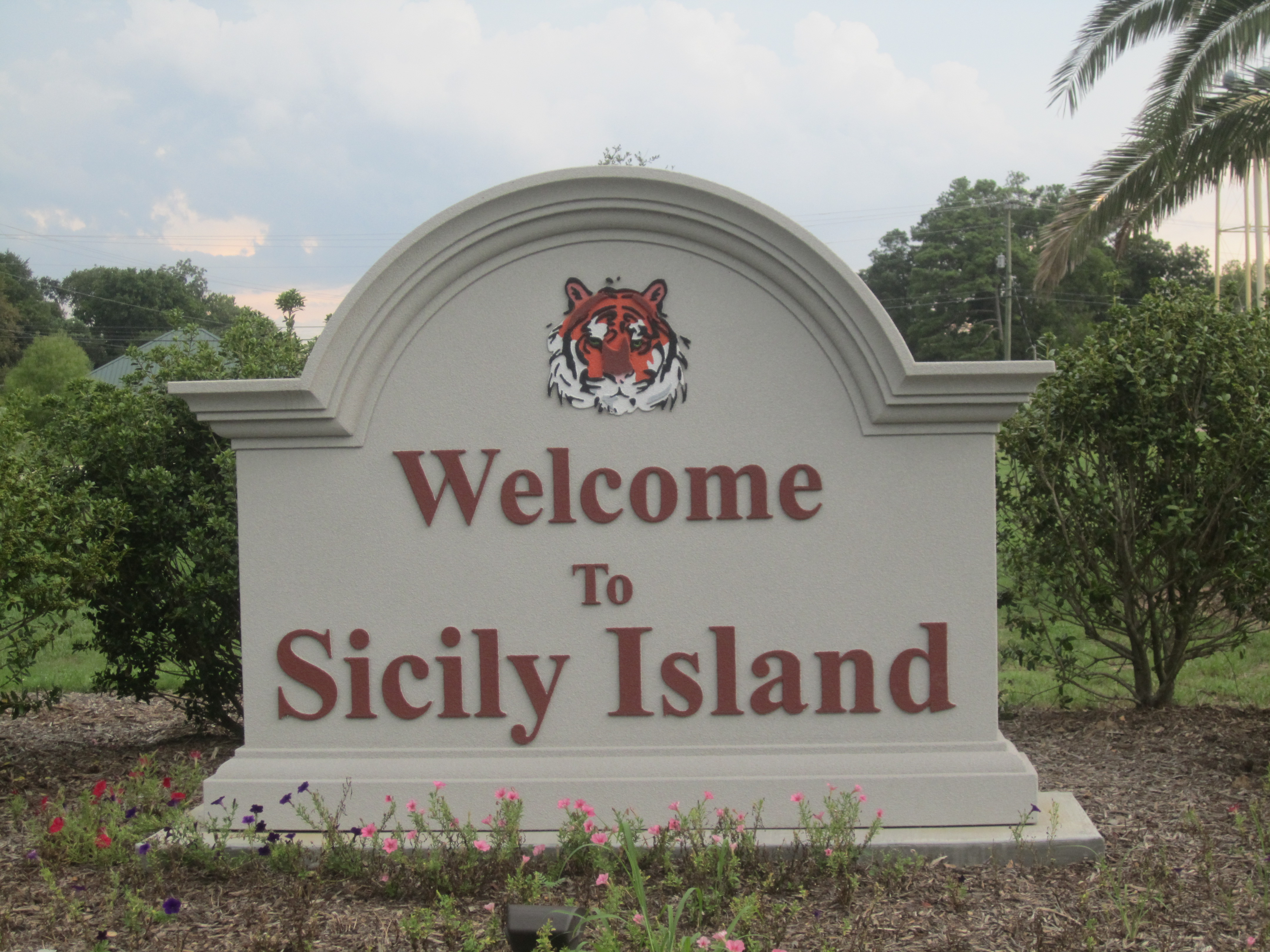 Welcome sign. I took photo with Canon camera in Sicily Island, LA.